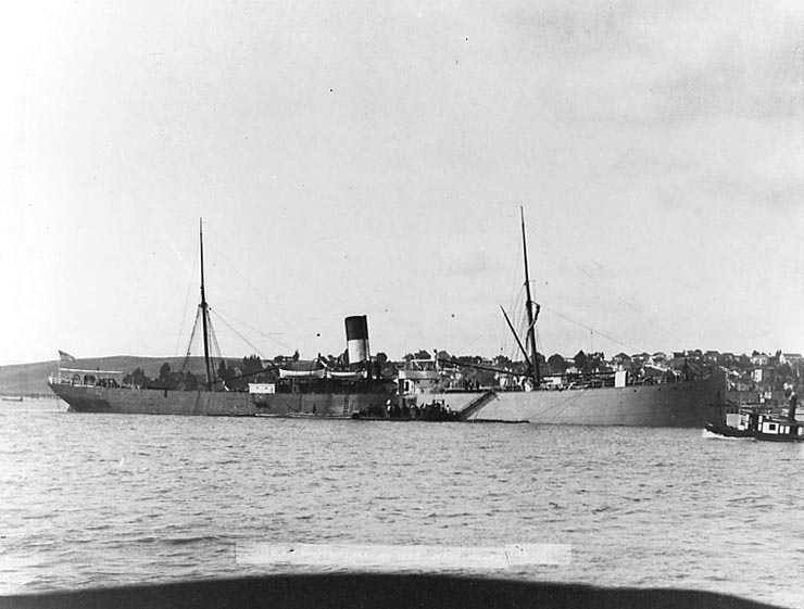 USS Brutus (1898-1922) Being repainted into wartime grey, off the Mare Island Navy Yard, California, 28 May 1898. She had been commissioned on the previous day.